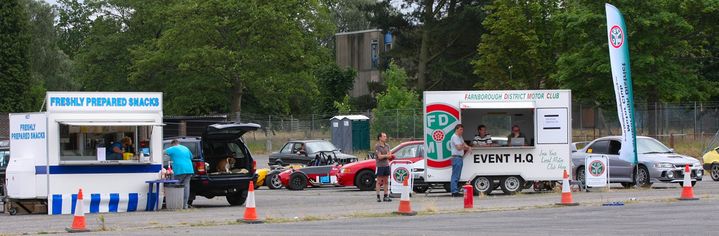 Start Line and Event Control at a UK Autosolo. Organised by Farnborough District Motor Club.